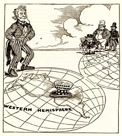 Newspaper cartoon from 1912 about the Monroe Doctrine